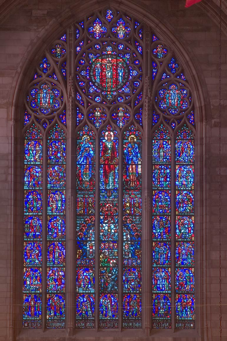 Crucifixion window, Princeton University Chapel